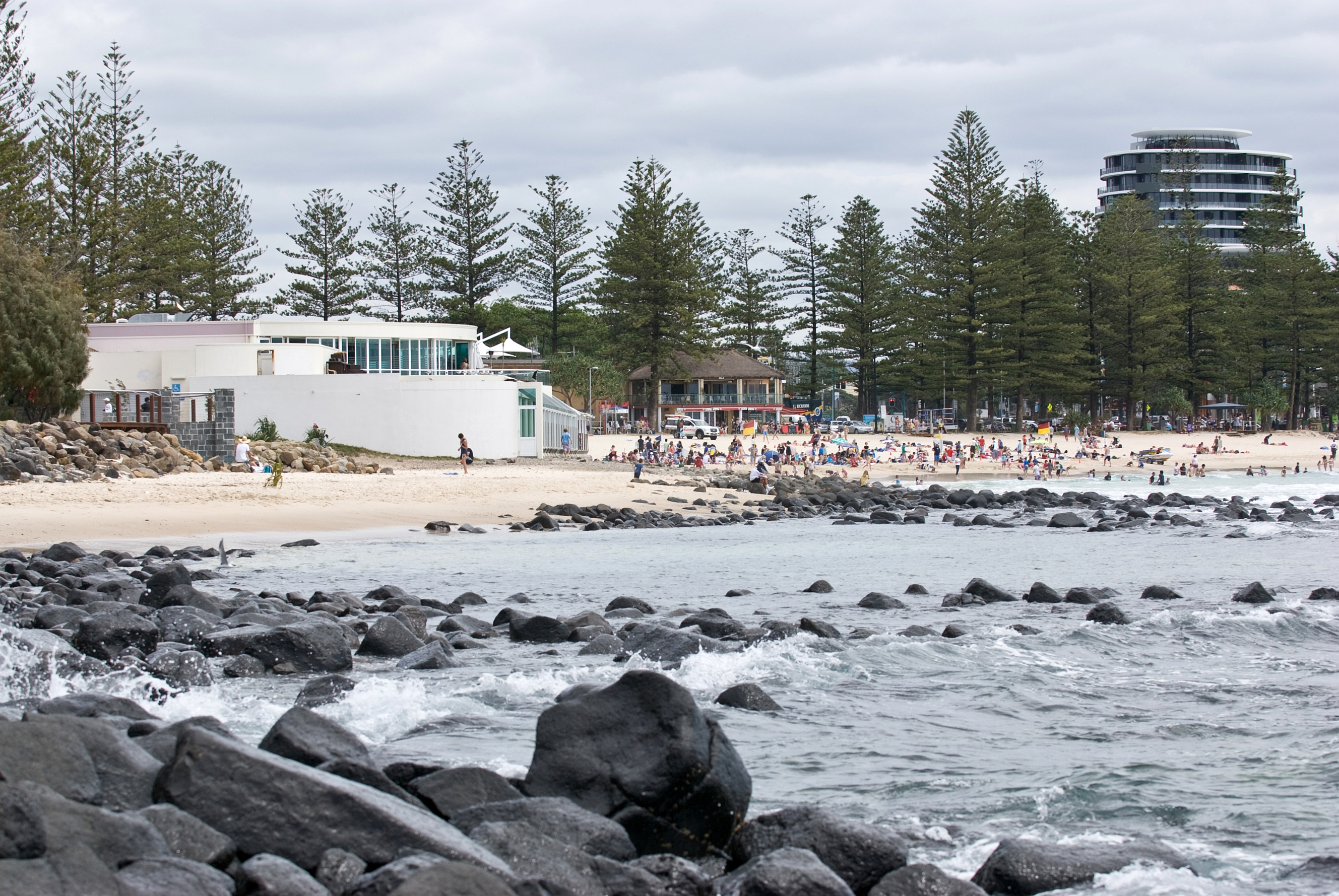 The beach is a main tourist focus on the Gold Coast, Queensland. Burleigh Heads is about half-way between Surfer's Paradise and Coolangatta.